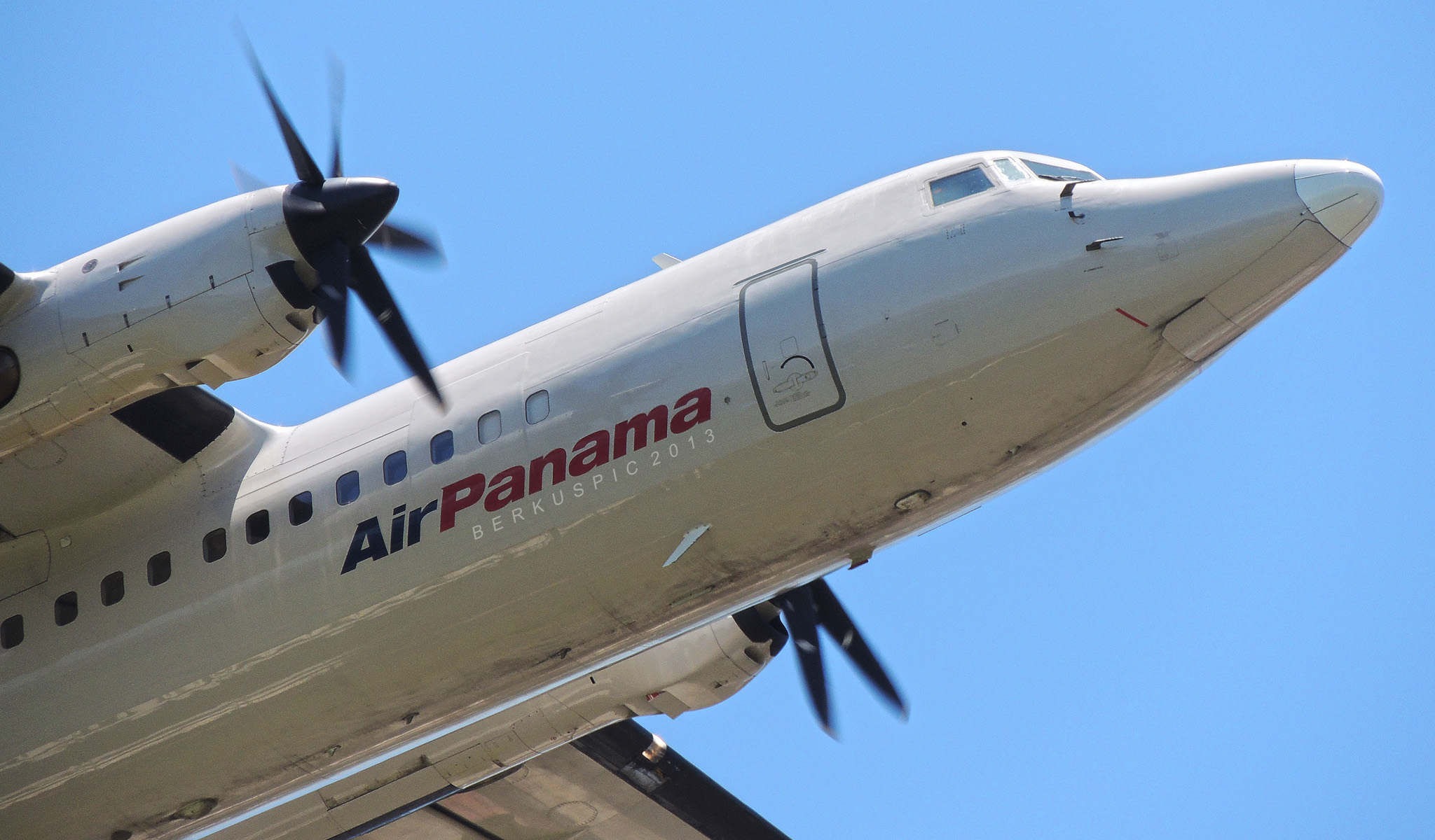 Air Panama humming out of MROC/ SJO.